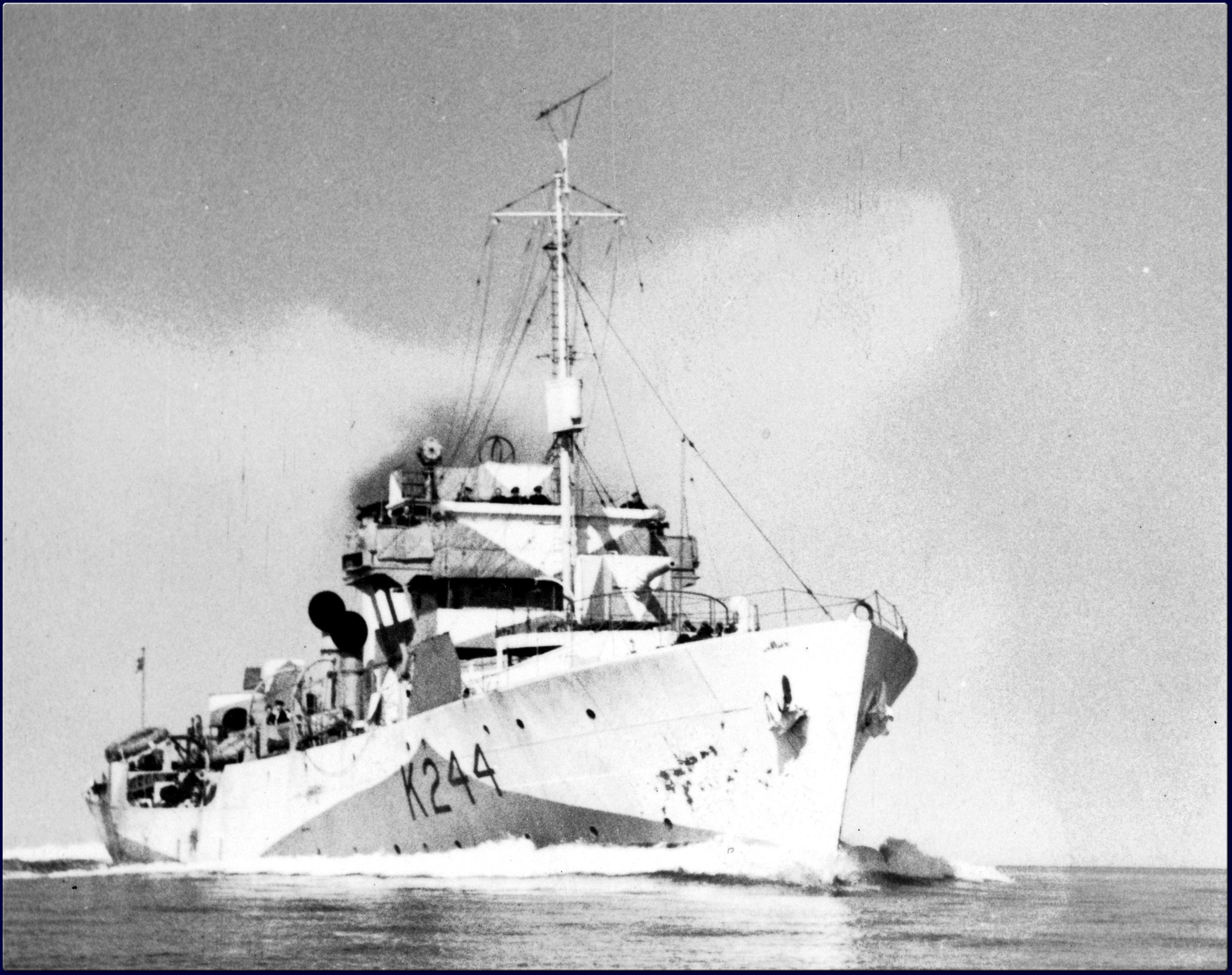 Canadian Flower class corvette HMCS Charlottetown (K244).